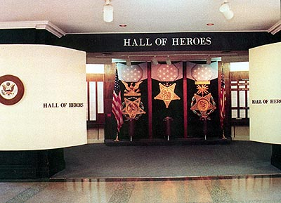 Pentagon Hall of Heroes